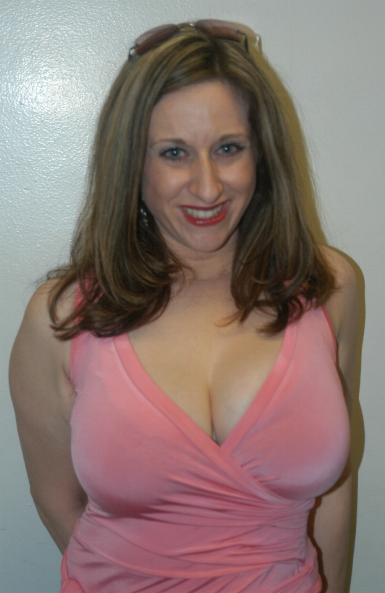 Kitty Lee at a World Modelling talent call.